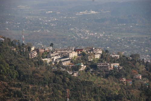 དབུས་སྨན་རྩིས་ཁང་།